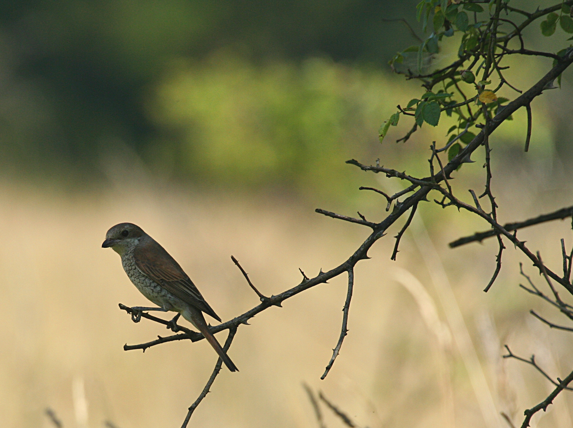 Red-backed Shrike (Lanius collurio)